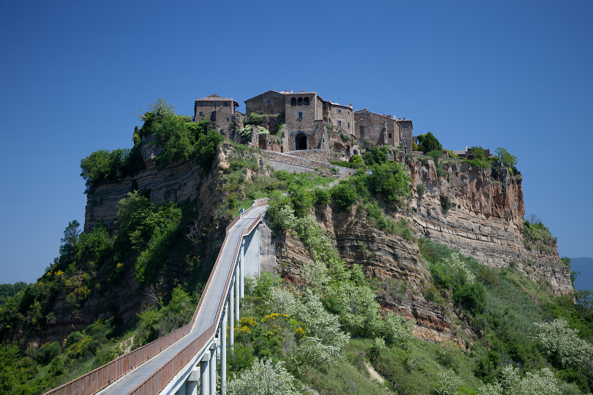 Civita di Bagnoregio is a town in the Province of Viterbo in Central Italy. The town was placed on the World Monuments Fund's 2006 Watch List of the 100 Most Endangered Sites, due to the threats it faces from erosion and unregulated tourism. The only access to Civita is through the pedestrian bridge leading to the only remaining gate. Civita is known as "the dying town" (il paese che muore) and the population today varies from about 12 people in winter to over 100 in the summer.